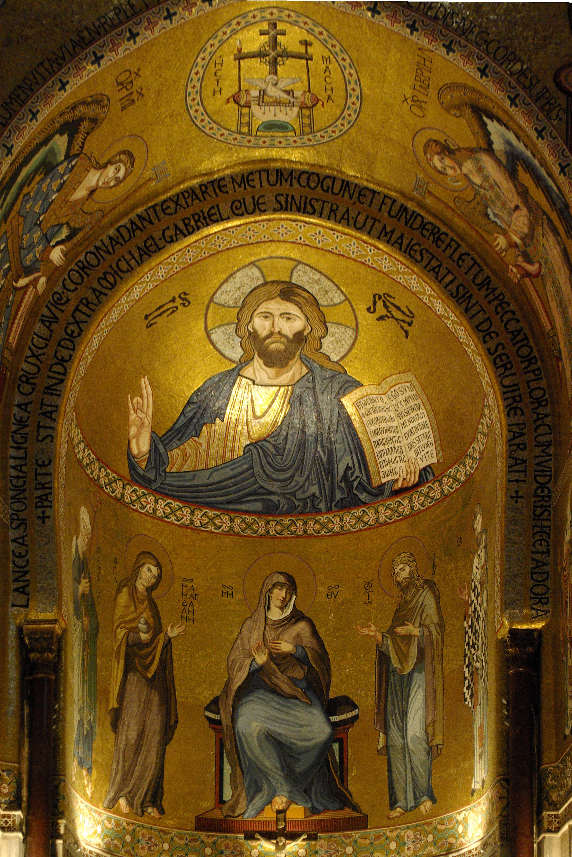 Italy, Sicily, Palermo, Capella Palatina